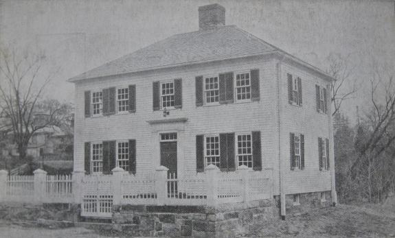 First Academy Building, Phillips Exeter Academy, Exeter, New Hampshire. The school opened in this building in 1783. It was restored and presented to the academy by the Class of 1891 to be used as the Faculty Club.